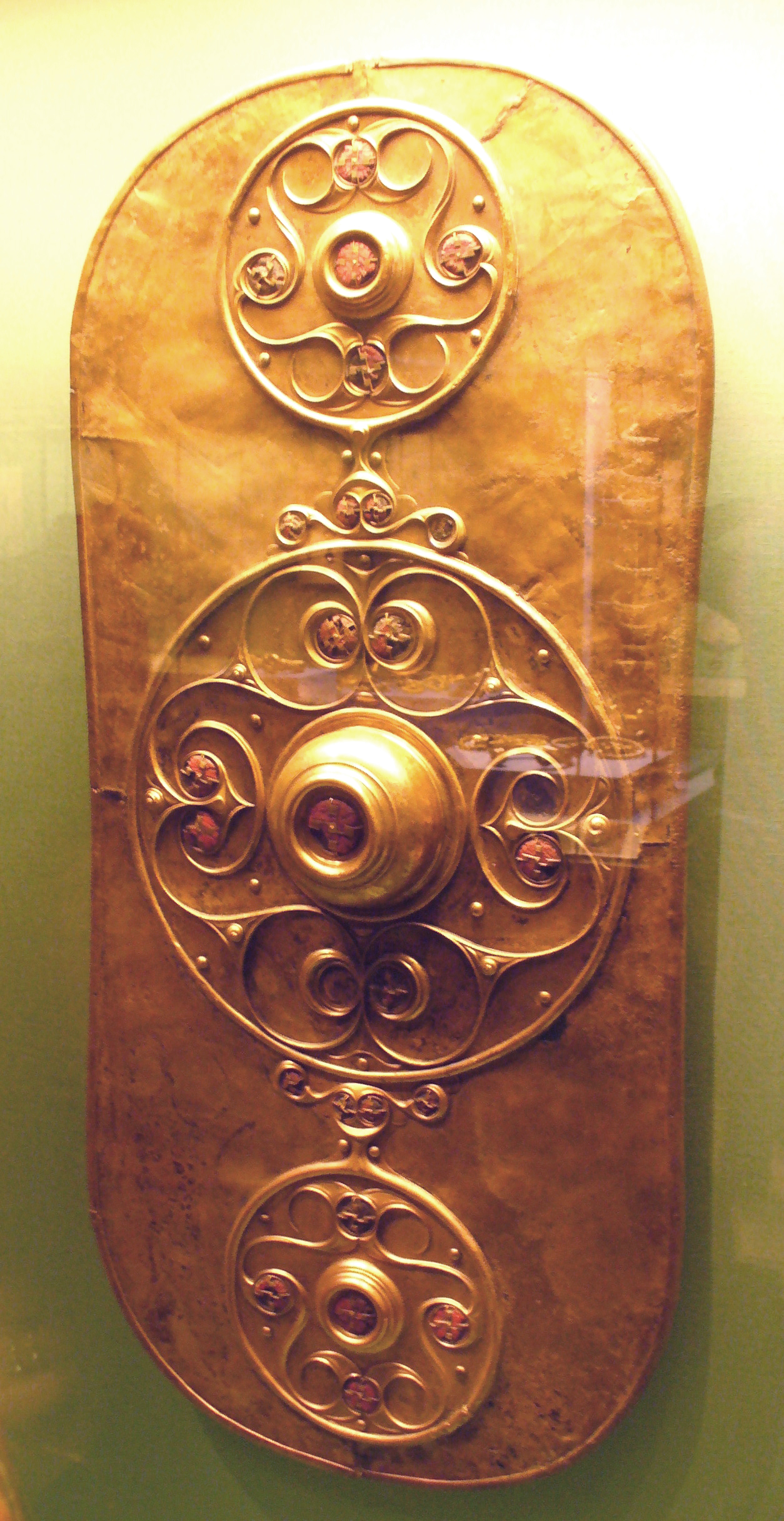 The famous Celtic shield found at Battersea. BM page